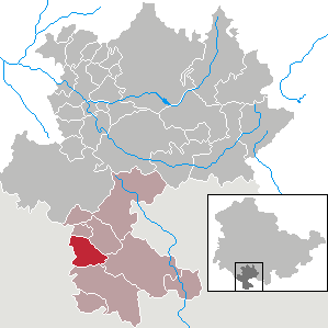 Gompertshausen in Thuringia - district Hildburghausen